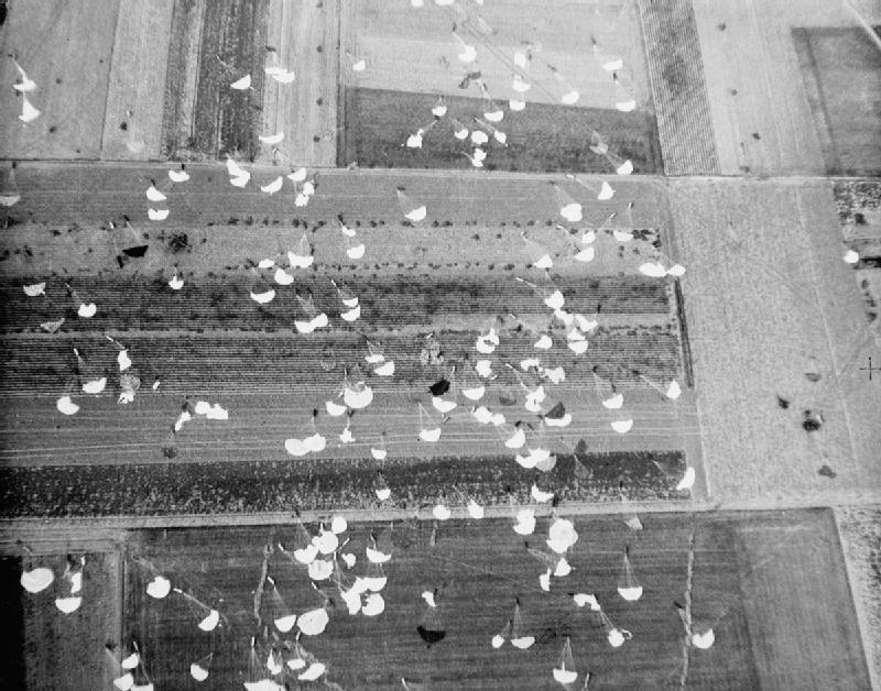 Royal Air Force Bomber Command, 1942-1945. Oblique aerial photograph showing parachutes and containers lying on a dropping zone in Belgium, following a supply drop to members of the Belgian resistance forces north of Brussels by aircraft of Bomber Command.